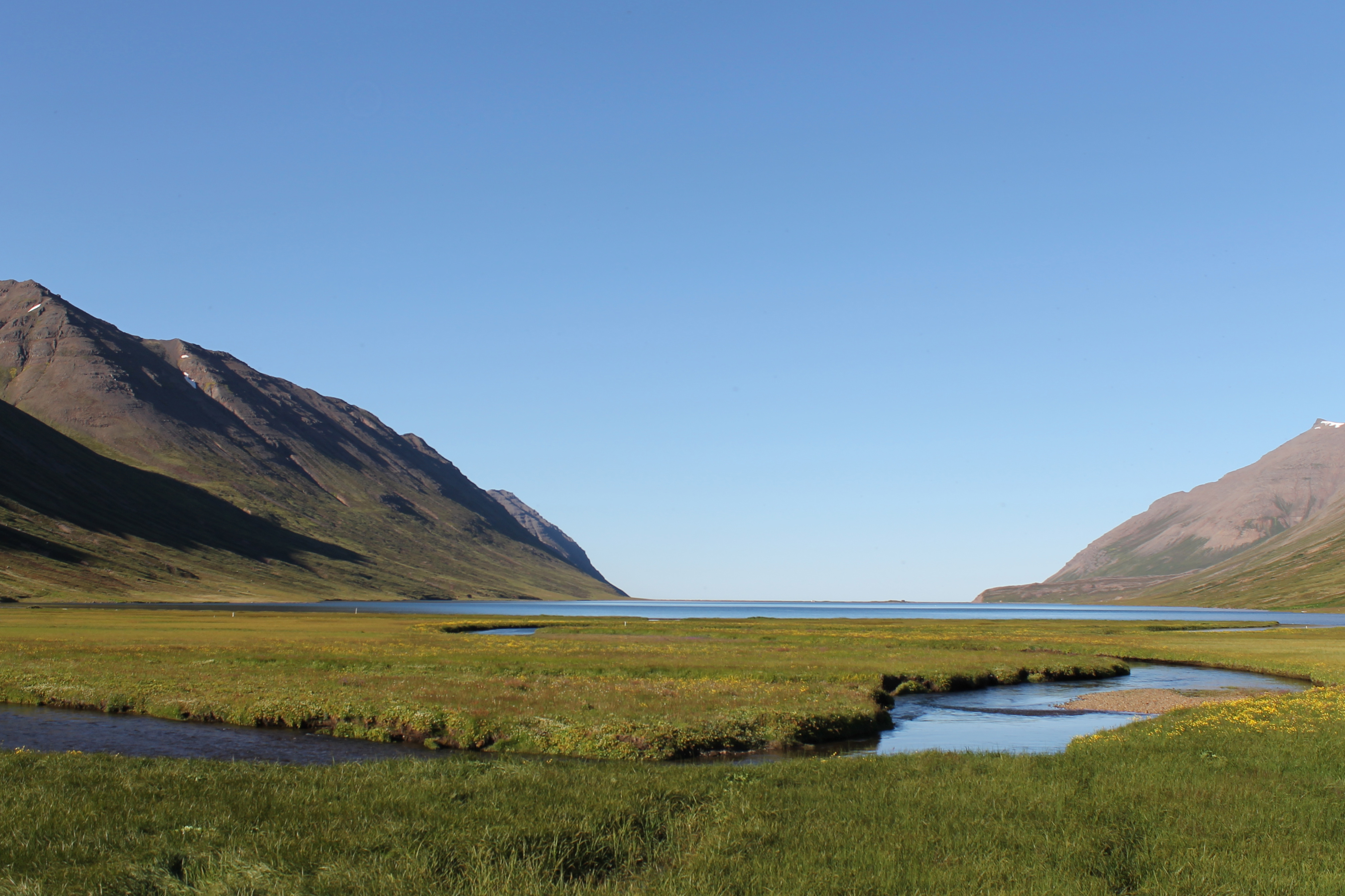 Héðinsfjörður, Northern Iceland. The mountain on the left is Hestfjall, site of the worst air disaster in Iceland.